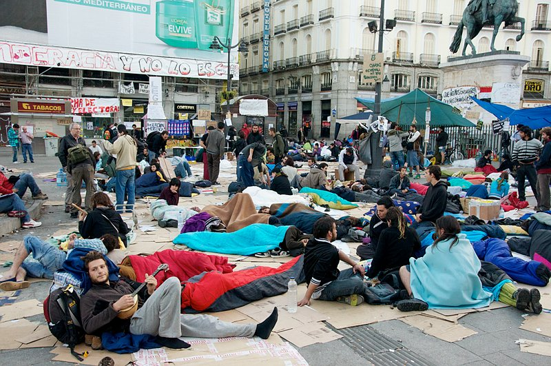 On the early morning of 18th of October activists wake up after sleeping in Puerta del Sol, Madrid, Spain.